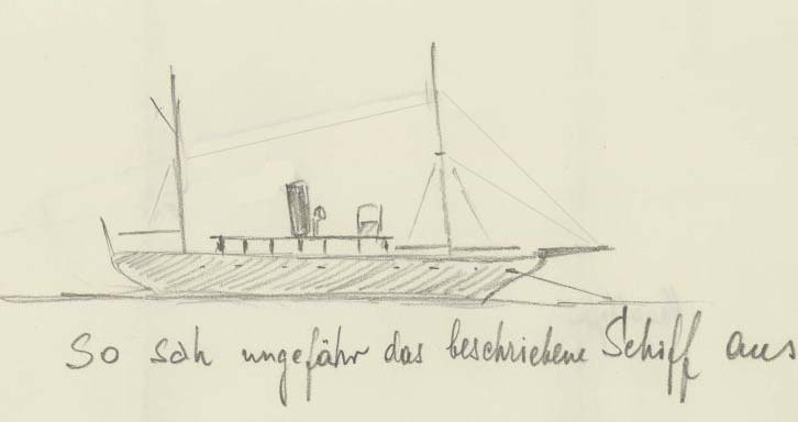 1937 drawing of the steamship Struma, identified by David Stoliar